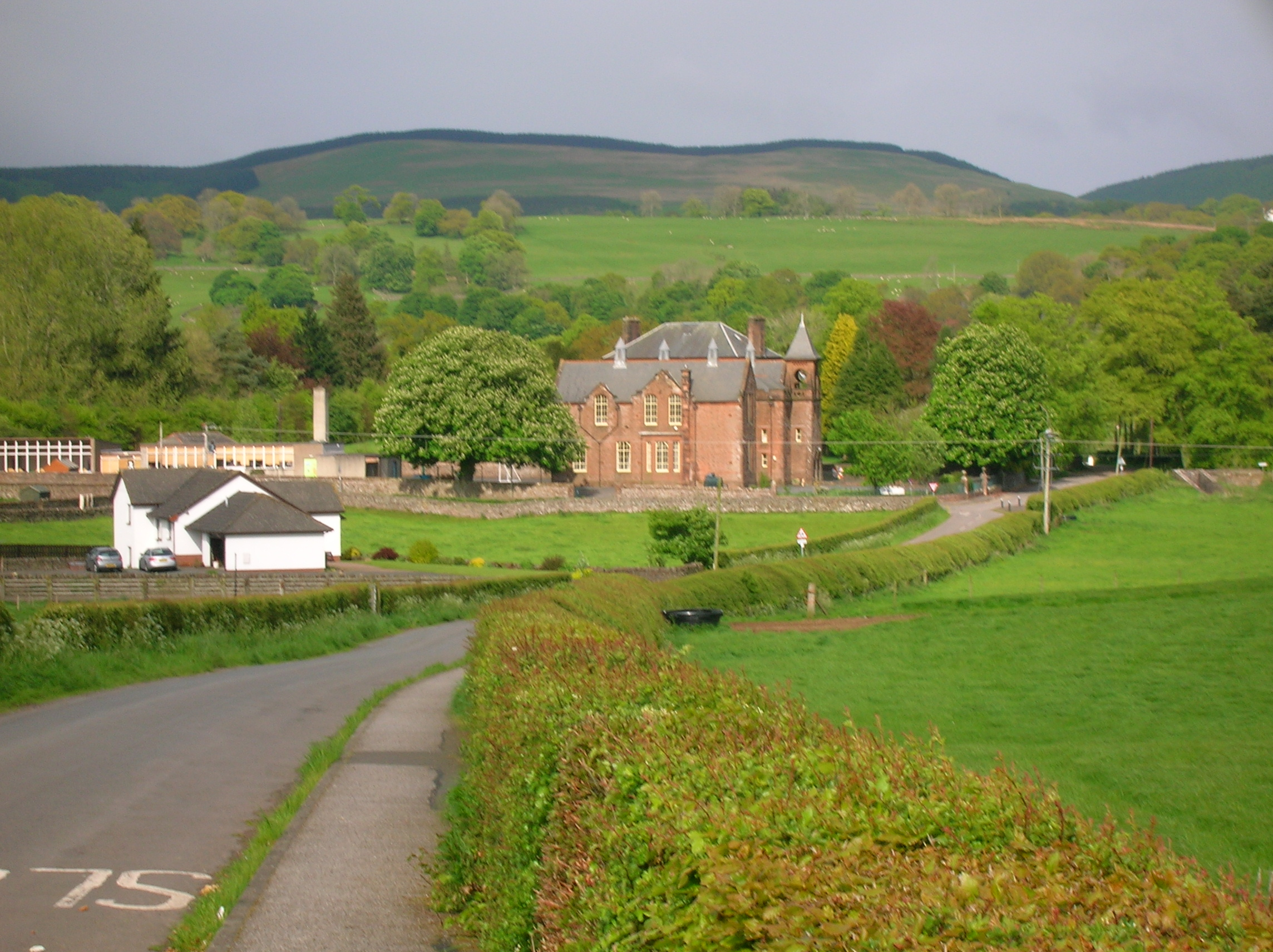 Closeburn Primary and Wallace Hall behind, Nith Valley, Dumfries & Galloway, Scotland.